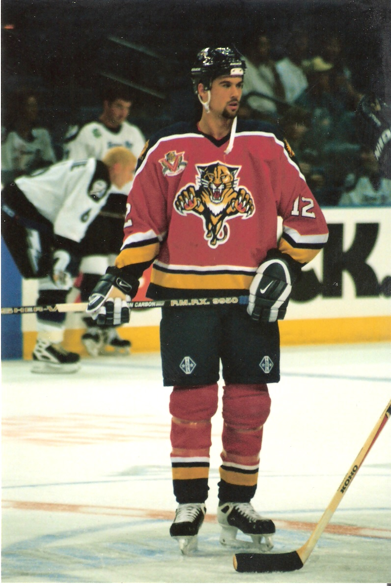 Photo of Chris Allen, canadian ice hockey player, from personal collection.